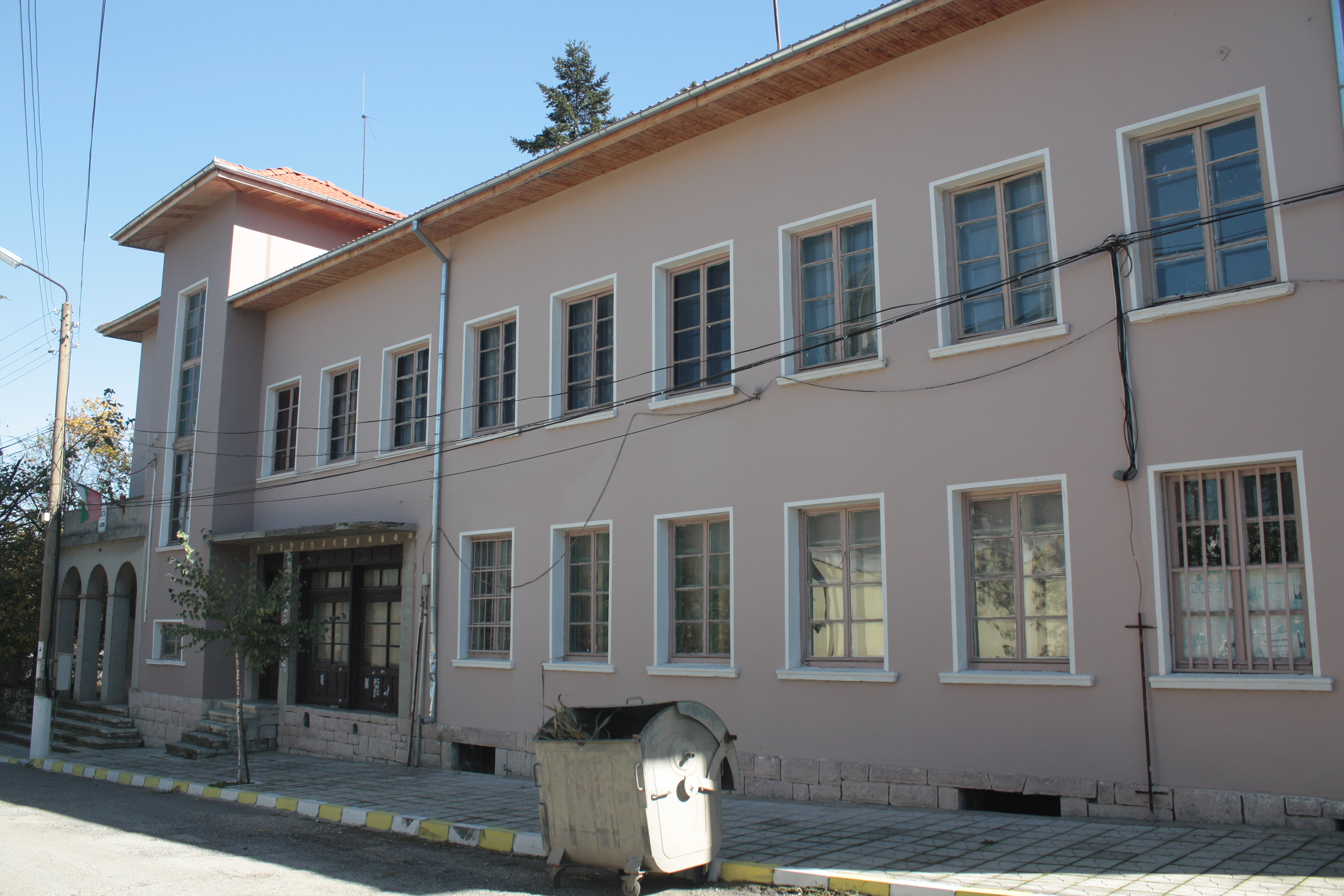 Municipality office (kmetstvo) in Karlukovo